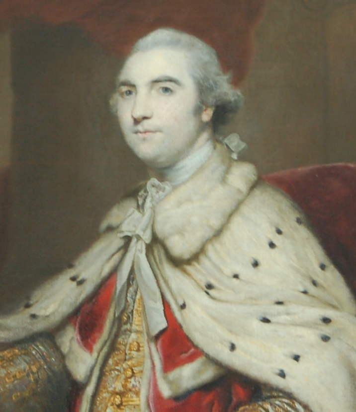 William Petty (1737-1805), 2nd Earl of Shelburne, former Prime Minister of the United Kingdom (1782-1783). The portrait was painted by Sir Joshua Reynolds (1723 – 1792) and is titled "William, 1st Marquess of Lansdowne". Bowood — is the stately Georgian country house and landscape gardens of the Marquis and Marchioness of Lansdowne.